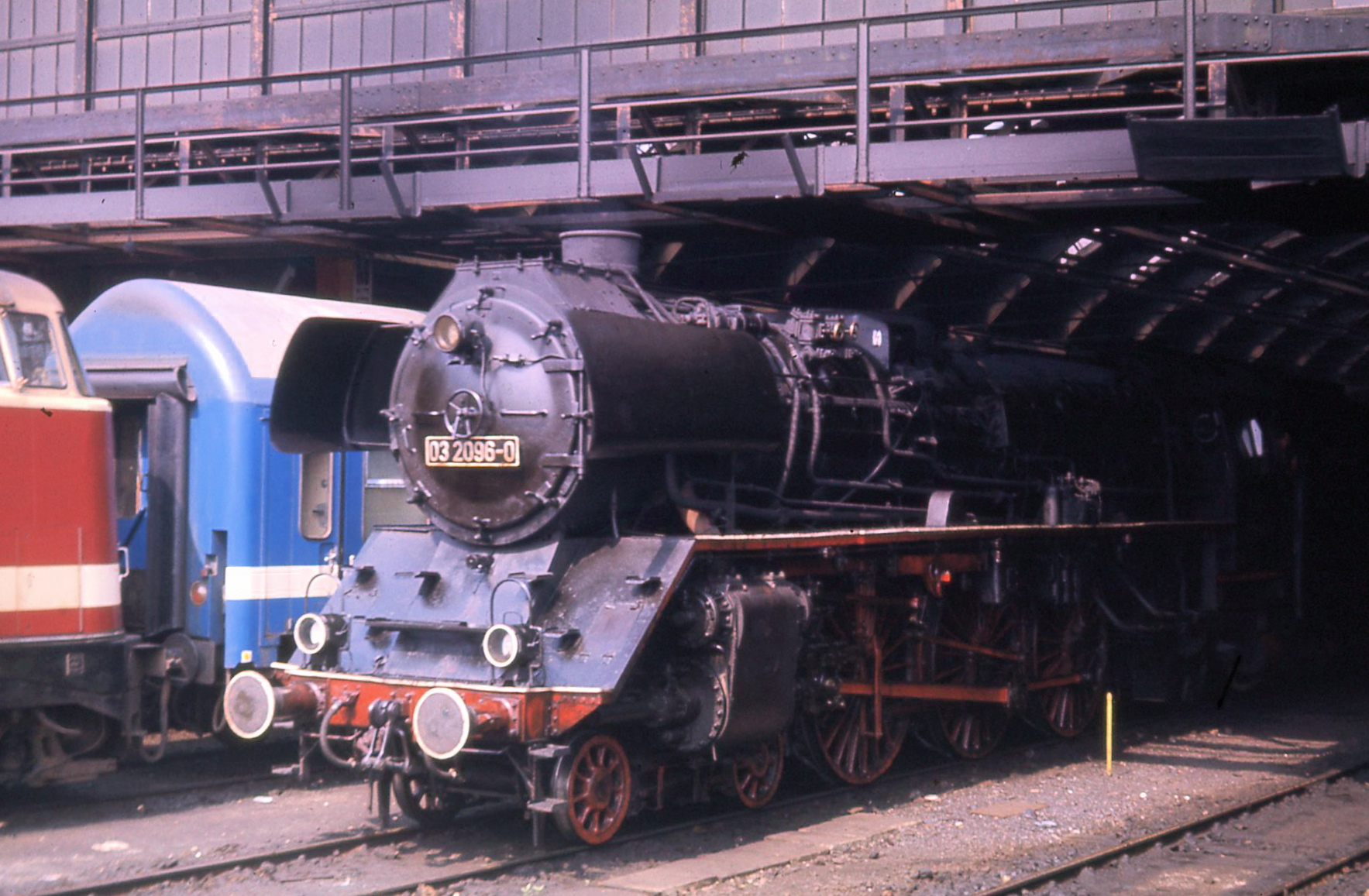 Trains at the east Berlin main station at summer 1973.